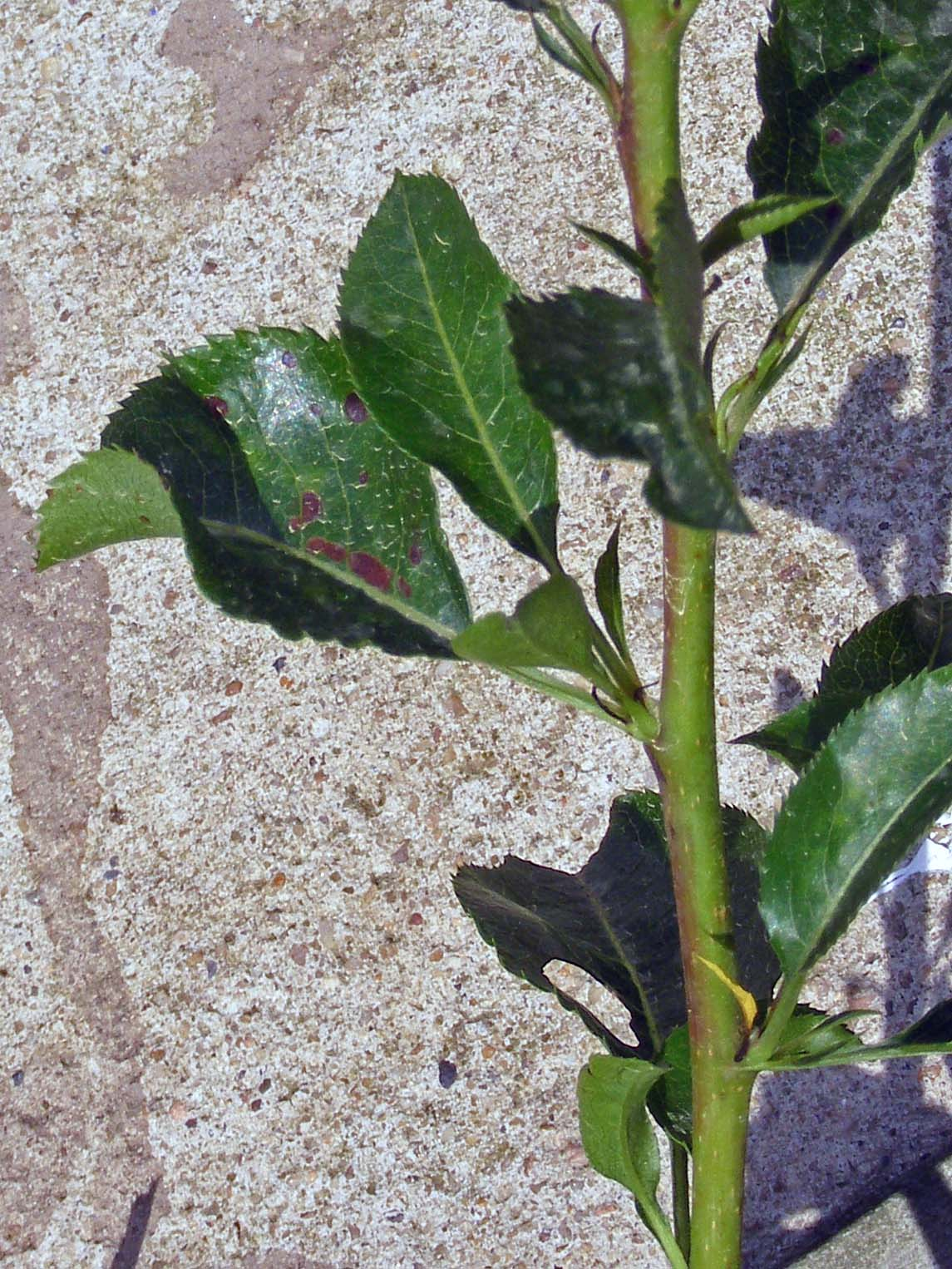 brown spot infection symptoms on leaves from pear